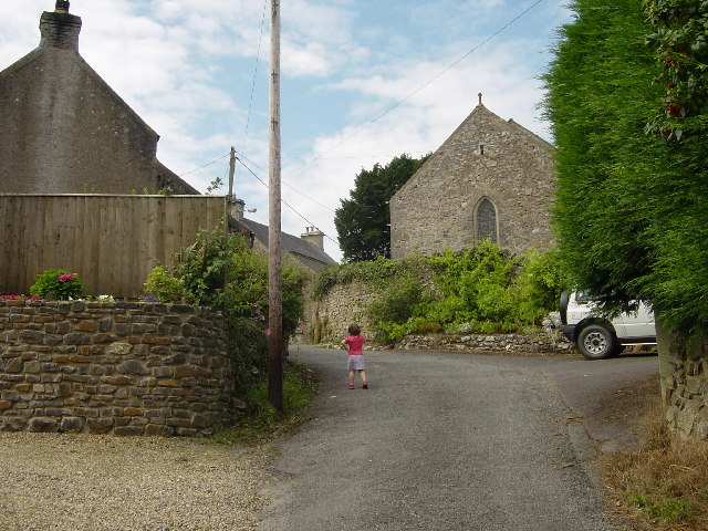 Redberth Pembrokeshire. This is the steep road leading up to the rear of St. Mary's church Redberth.Redberth is a small village typical of Pembrokeshire rural communities.